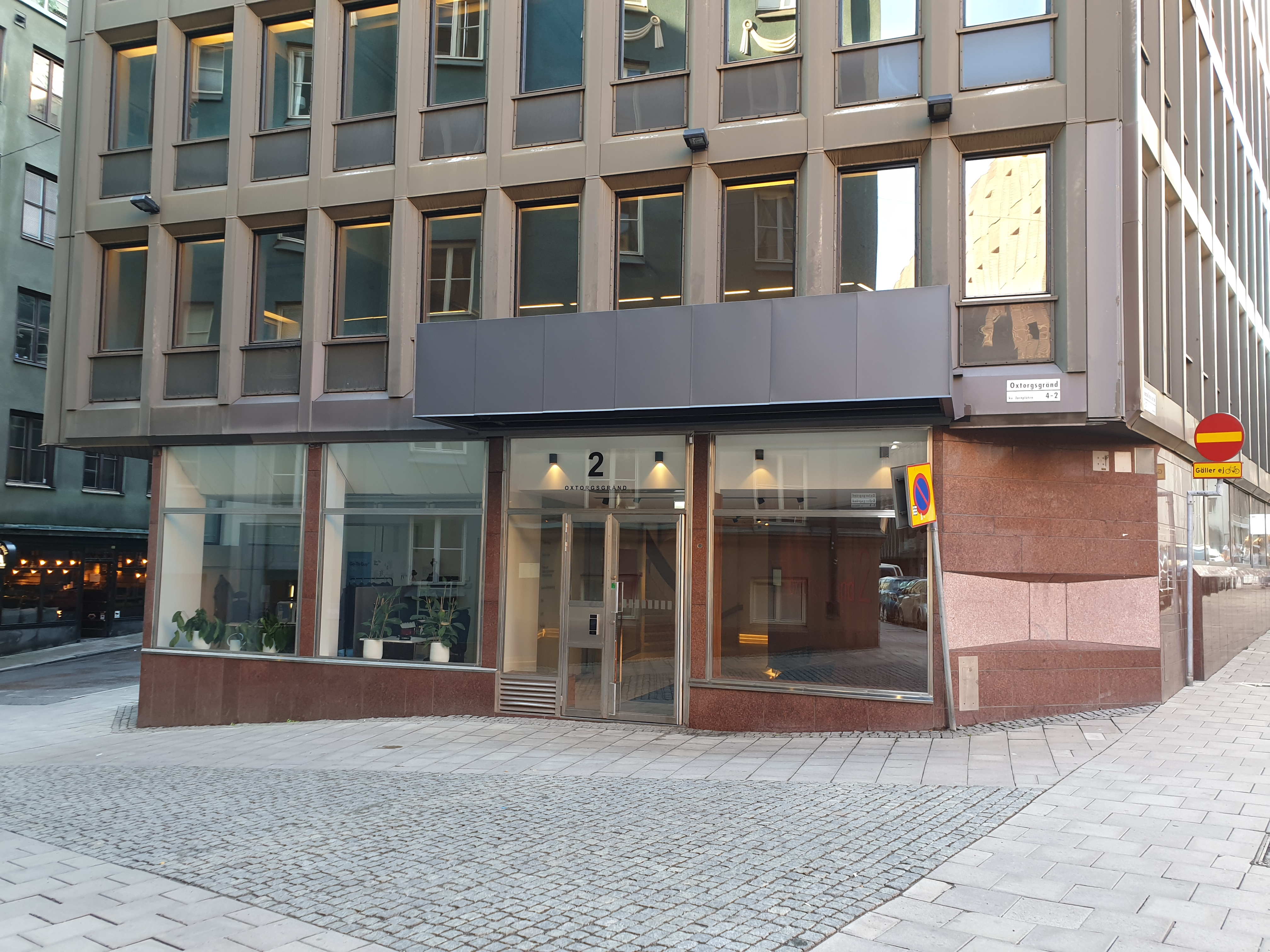 Swedish Library Association, Oxtorgsgränd 2, Stockholm